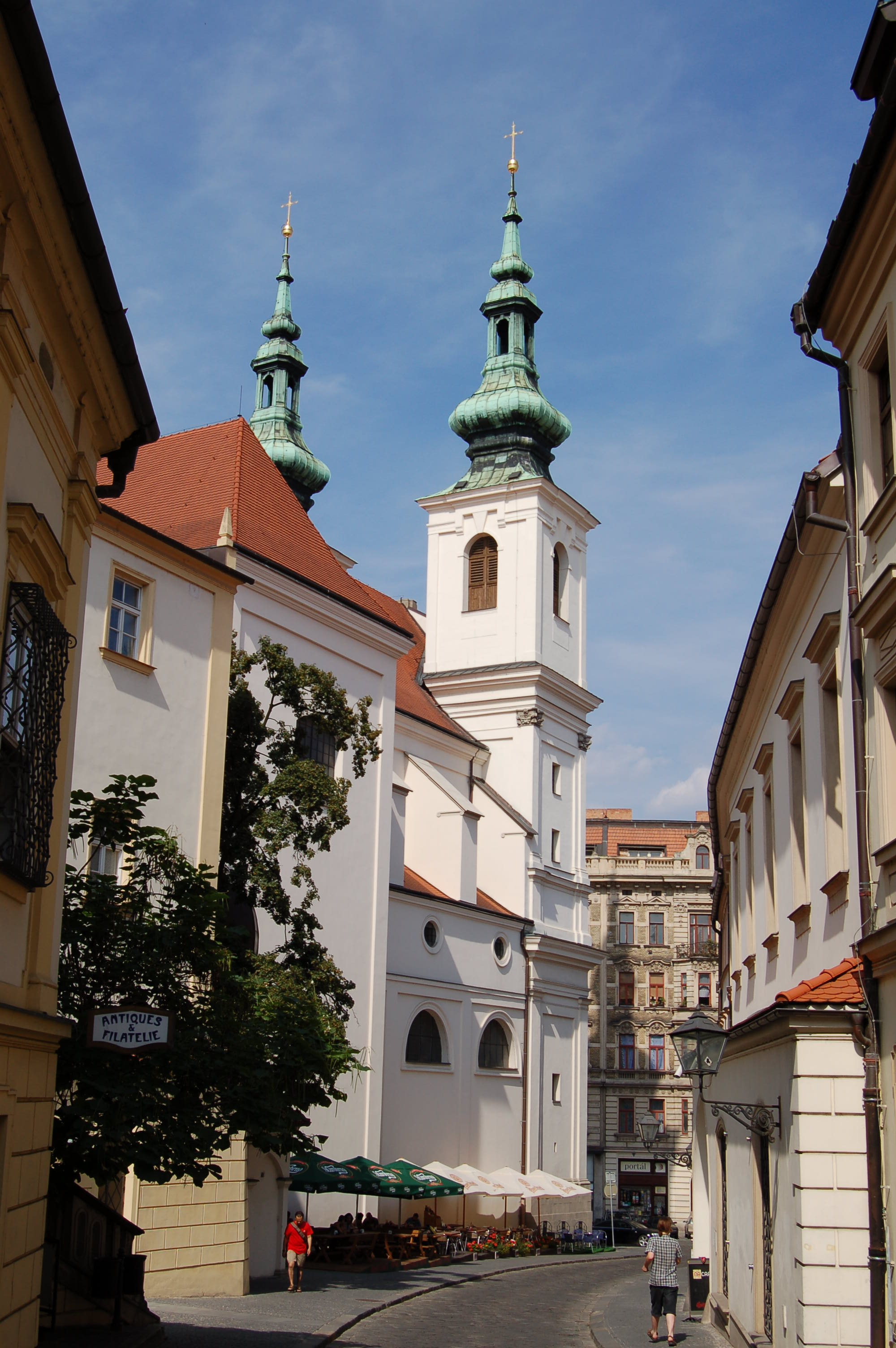 Buildings in the center of the Czech city Brno.